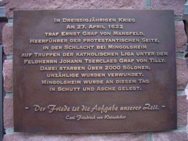 Battle-Memory of 27. April 1622 in Mingolsheim. Place: Bad Schoenborn/ Bad Mingolsheim